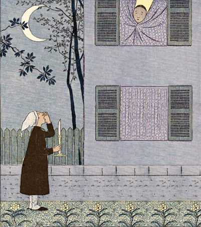 Illustration of the song for children : Au clair de la Lune